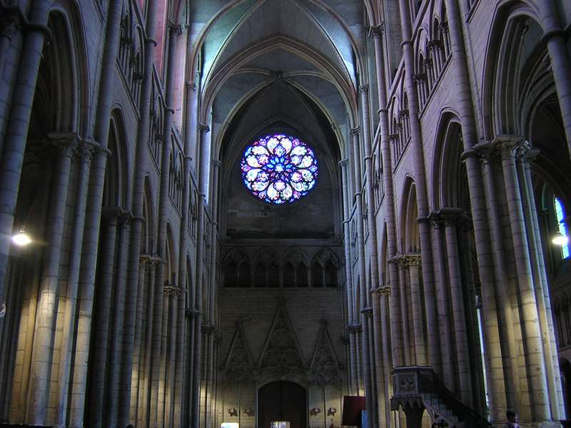 Before passing the door of Notre Dame, Saint John shows the way at the pilgrims